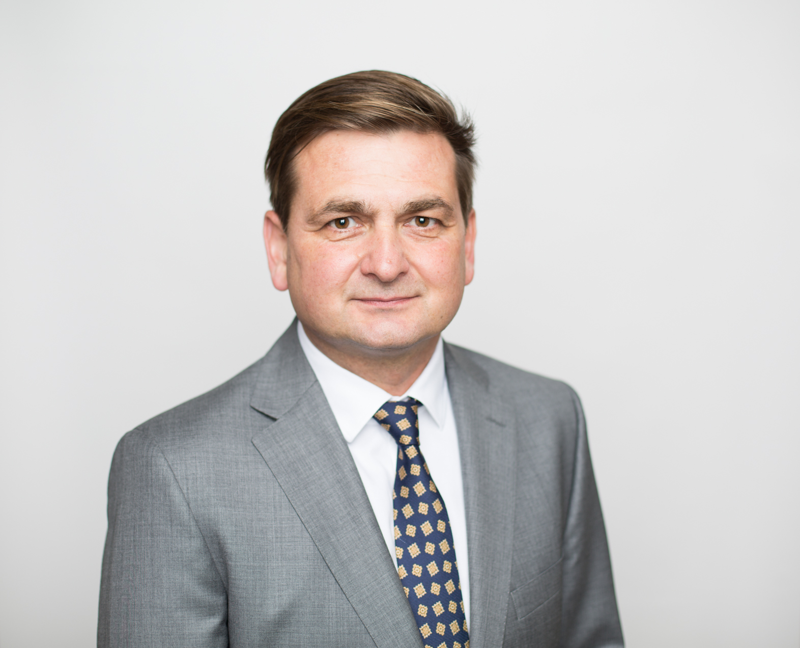 Martin Červíček is from 2018 member of the Senate of the Parliament of the Czech Republic